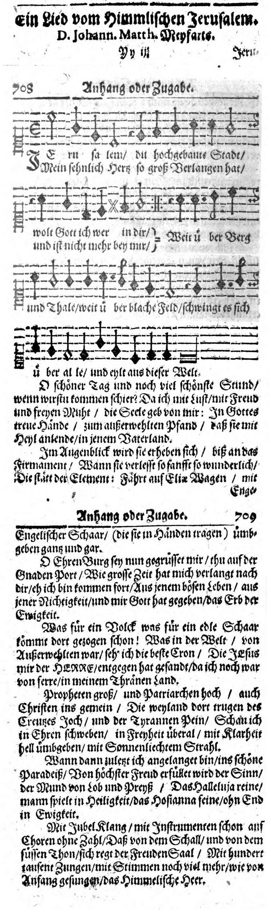 German church hymn "Jerusalem, du hochgebaute Stadt", first print with melody, Erfurt 1663